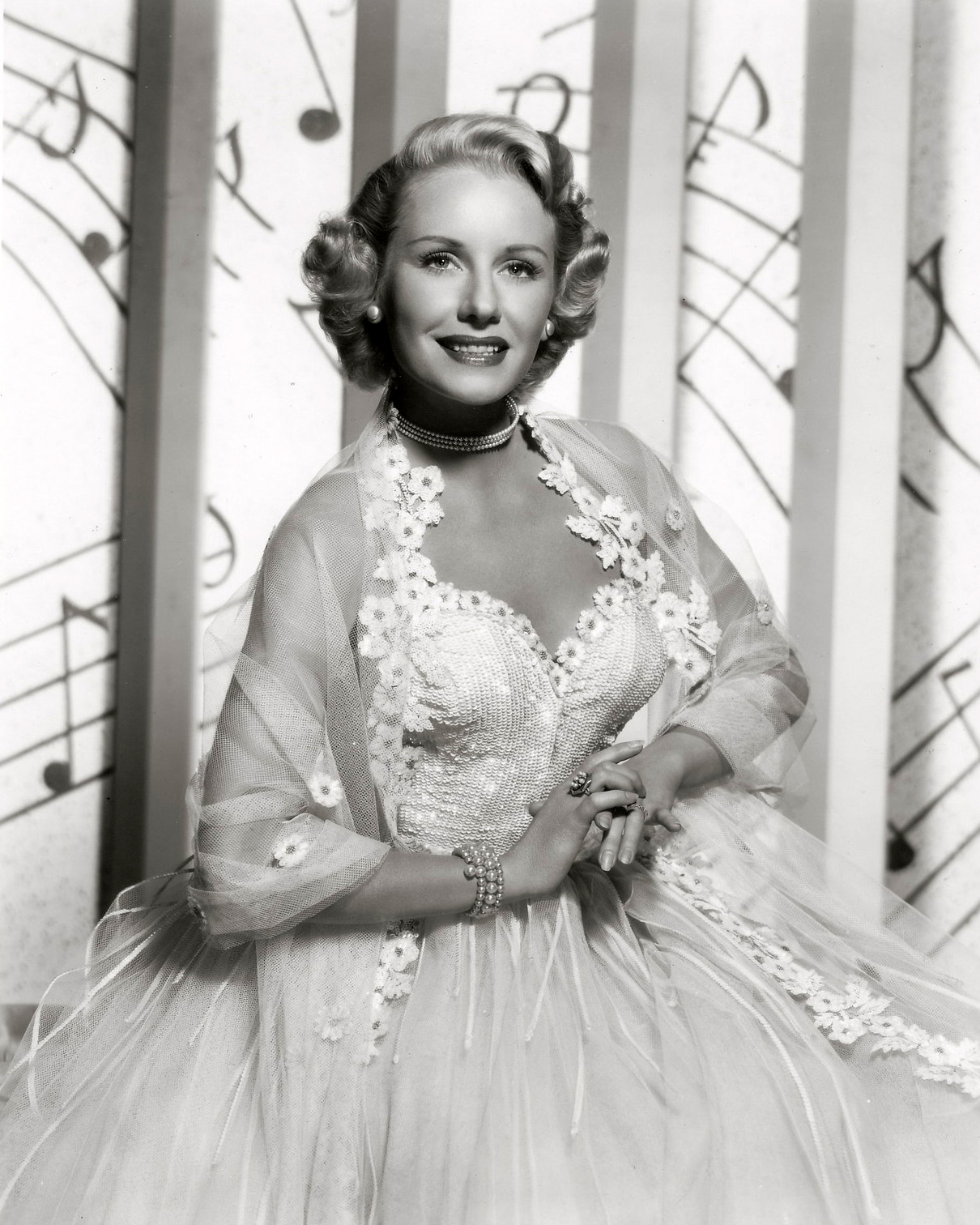 Publicity photo of Lucille Norman, @ 1950